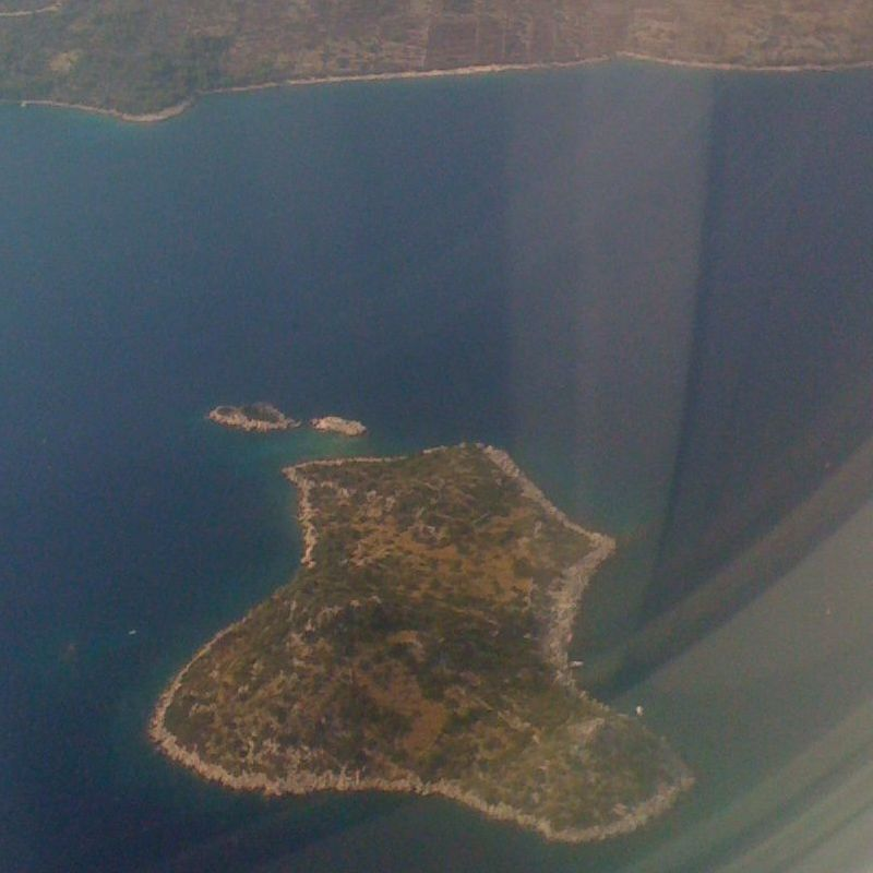 Otok